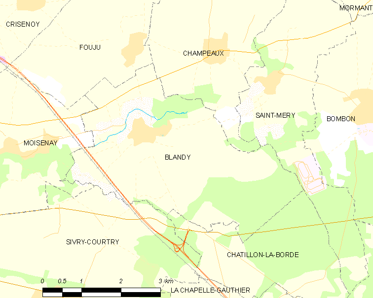 Map of French municipality Blandy